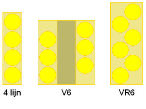 Schematic top view illustrating cylinder positions, highlighting the differences in engine width and length between an inline four engine, a conventional V6 engine, and the Volkswagen Group VR6 engine